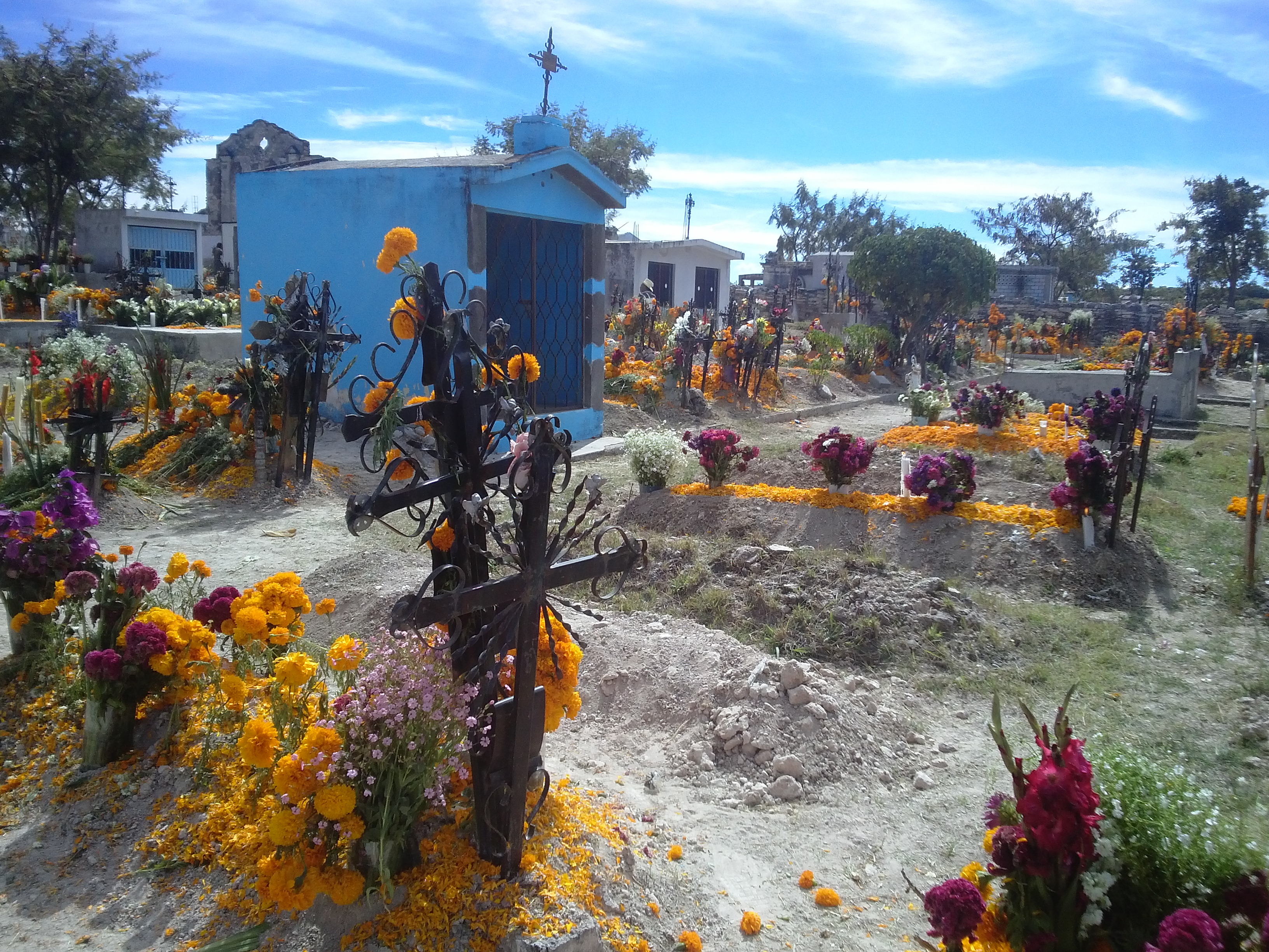 Panteón Civil of Santa Inés Ahuatempan, Puebla each tomb is decorated with a lot of cempazuchitl flowers, candles and roods.